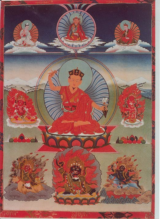 Karma Pakshi)